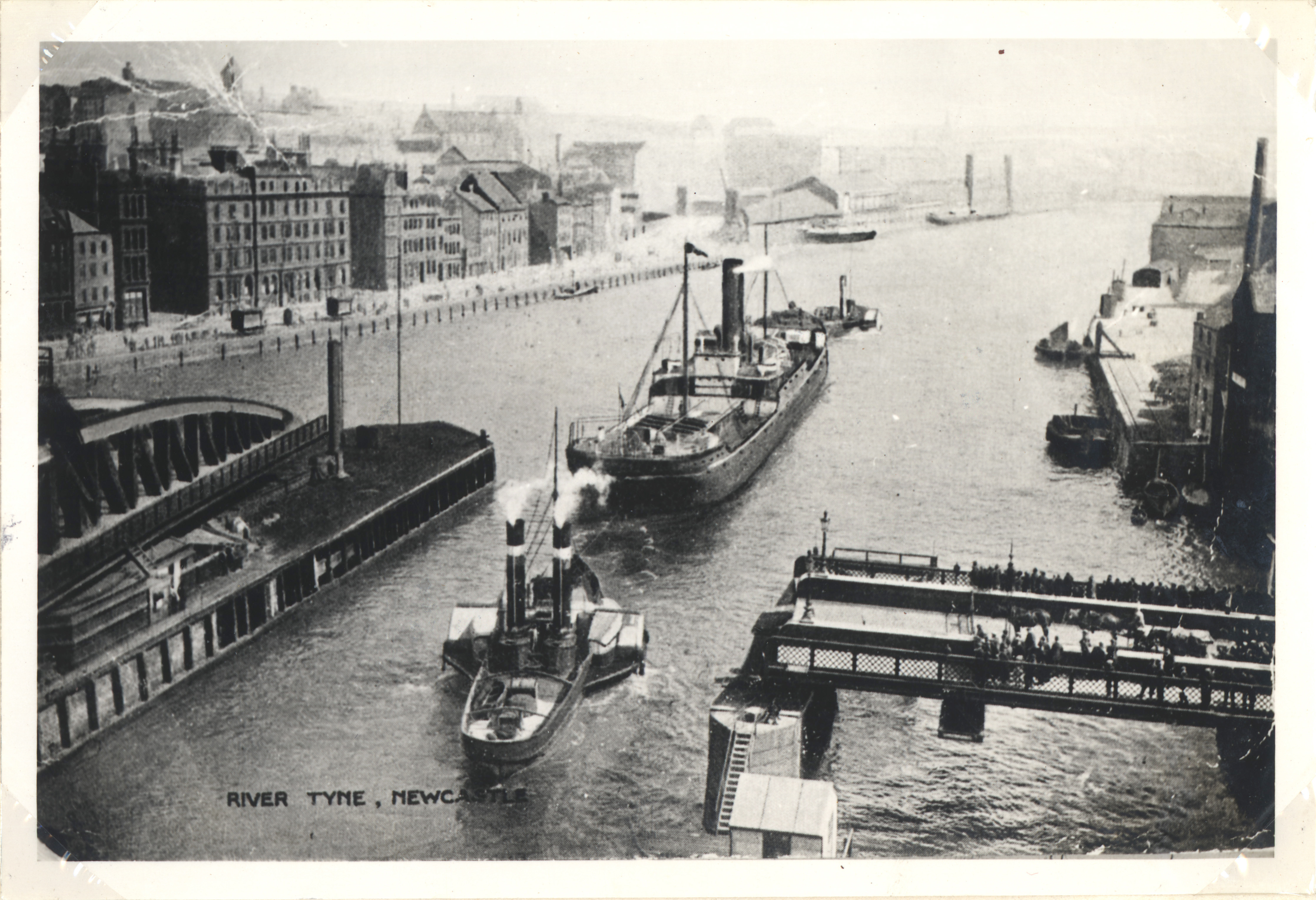 Postcard of a steam tug called Vigilant coming through the swing bridge in Newcastle.